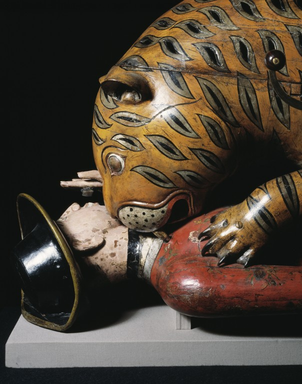 Tippoo's Tiger